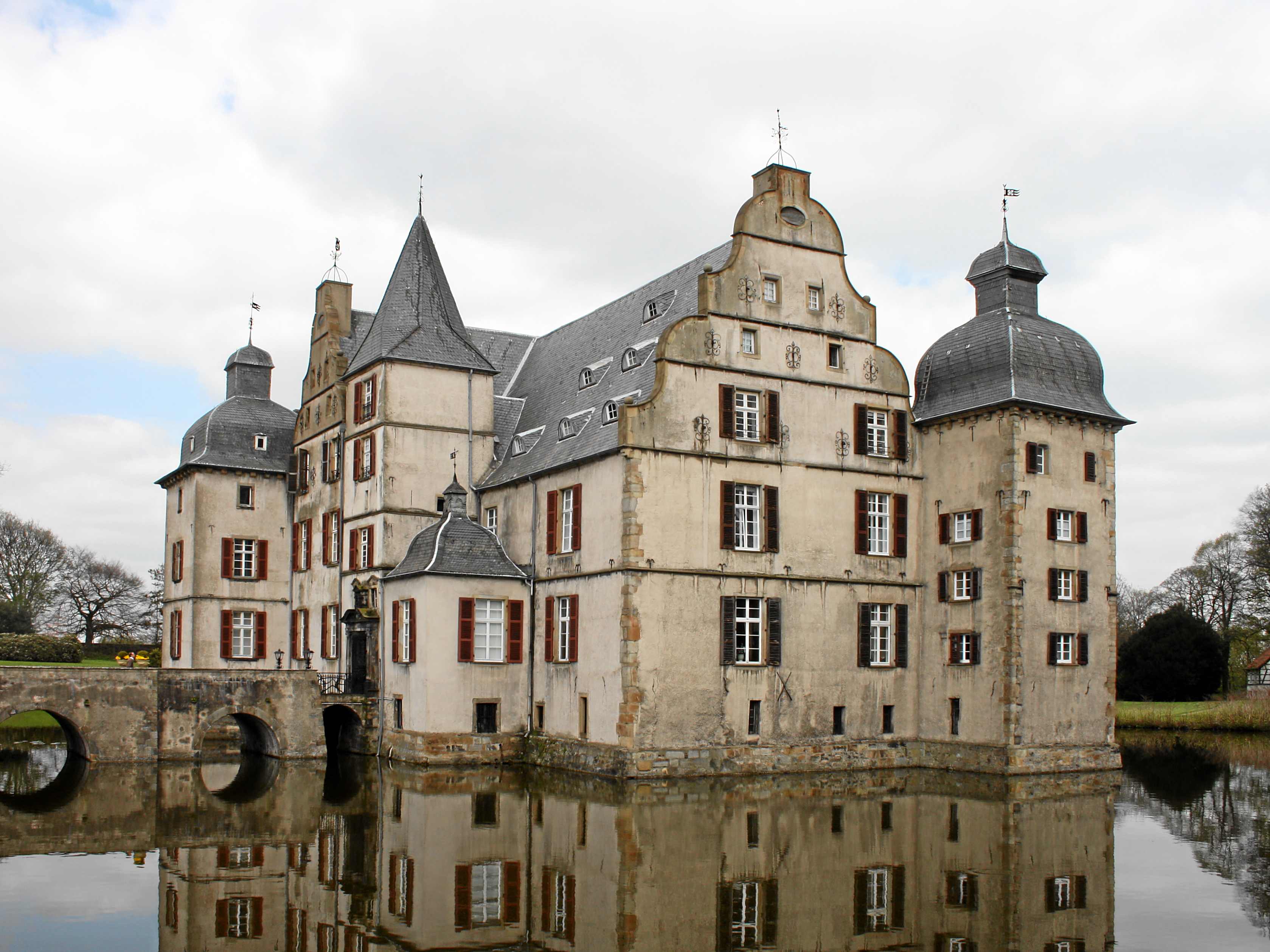 Dortmund, Germany. Bodelschwingh castle, view from South.